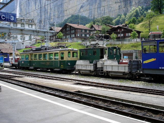 Jungfraubahnen, Lauterbrunnen station